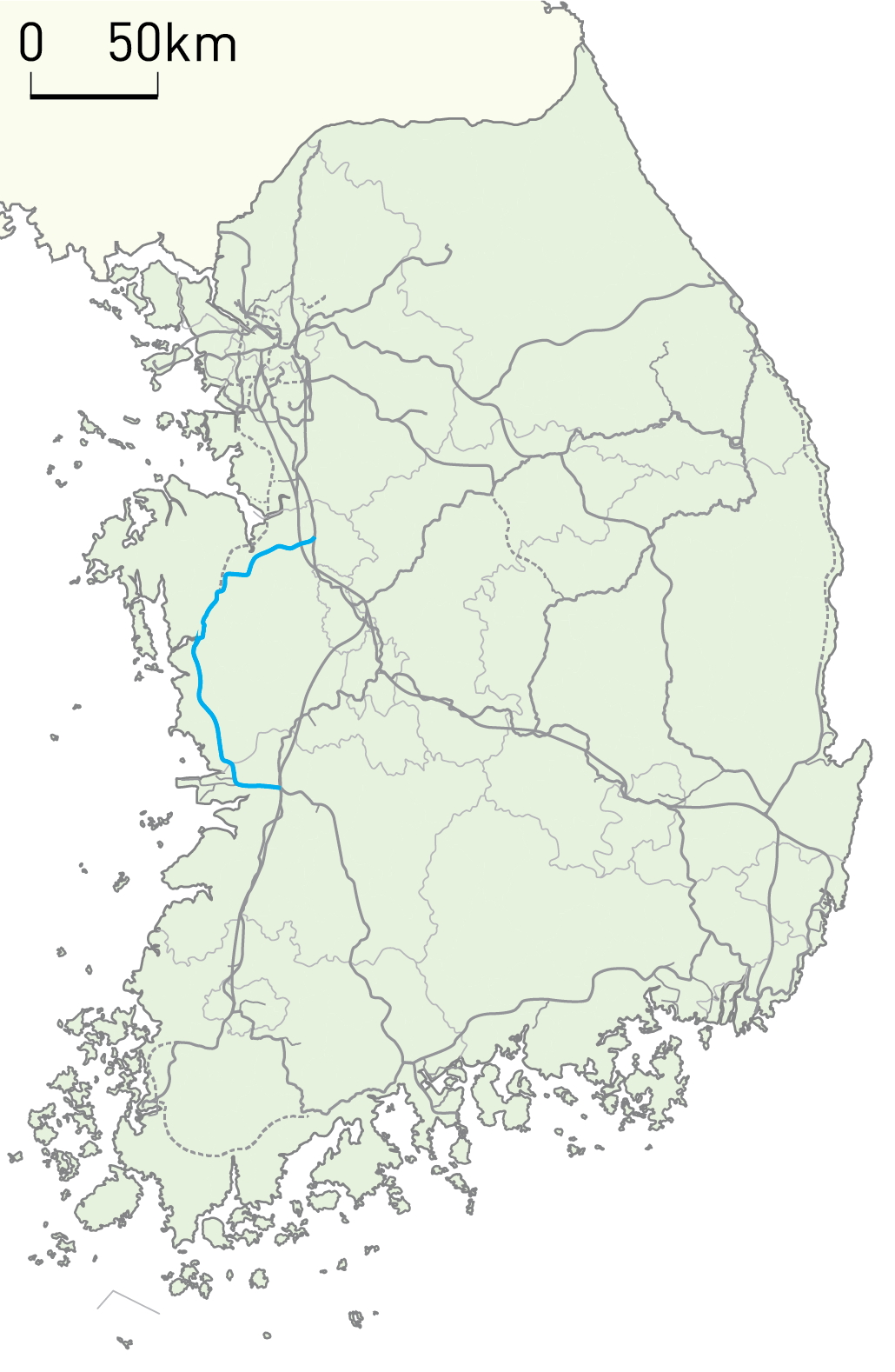 Korail Janghang Line route map